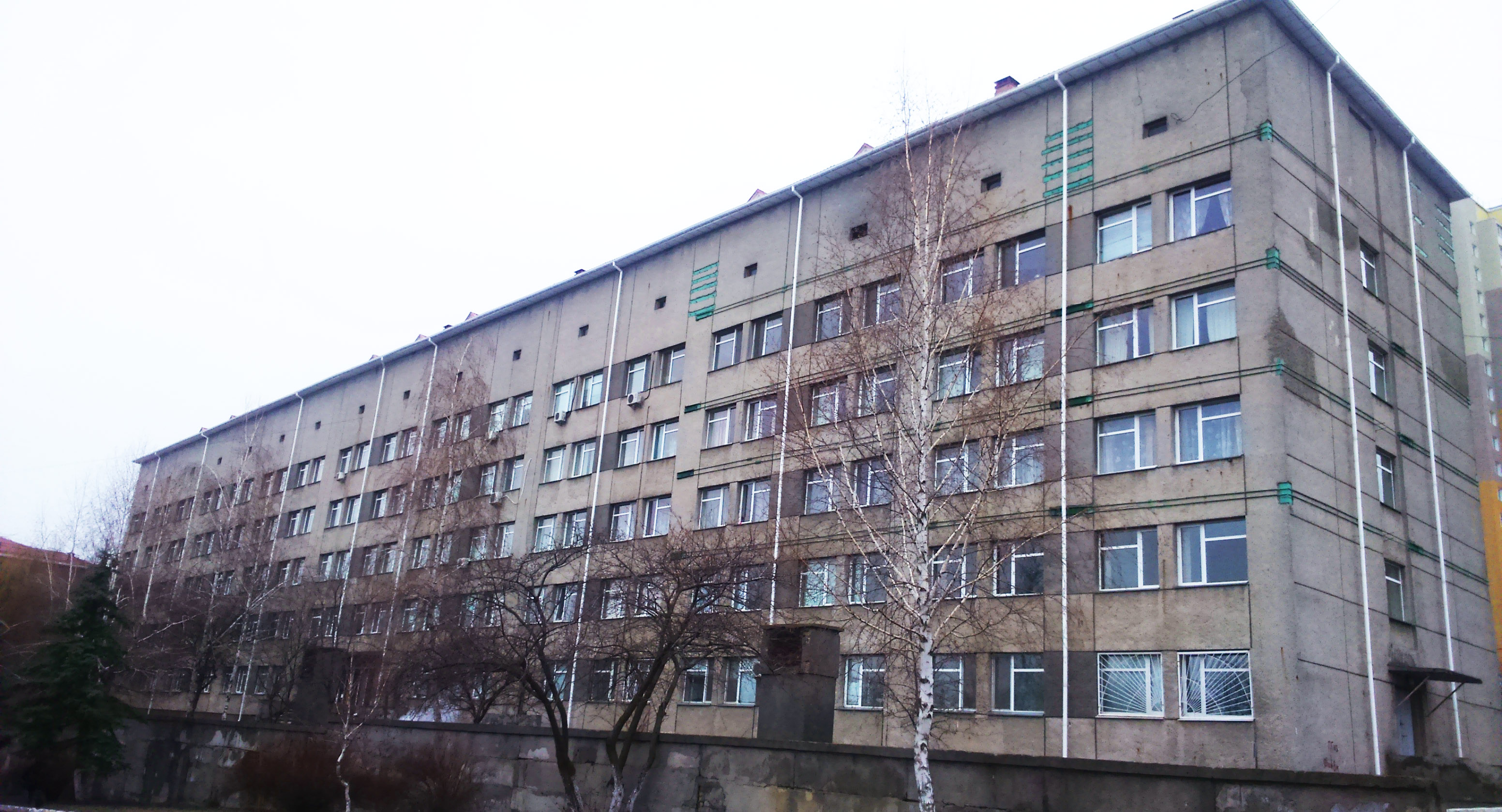 Vyshhorod central district hospital